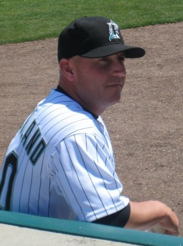 Scott Strickland at Marlins training camp 2010 (Picture by Ian Bussieres, Le Soleil, Quebec City) The copyright holder of this file allows anyone to use it for any purpose, provided that the copyright holder is properly attributed. Redistribution, derivative work, commercial use, and all other use is permitted.